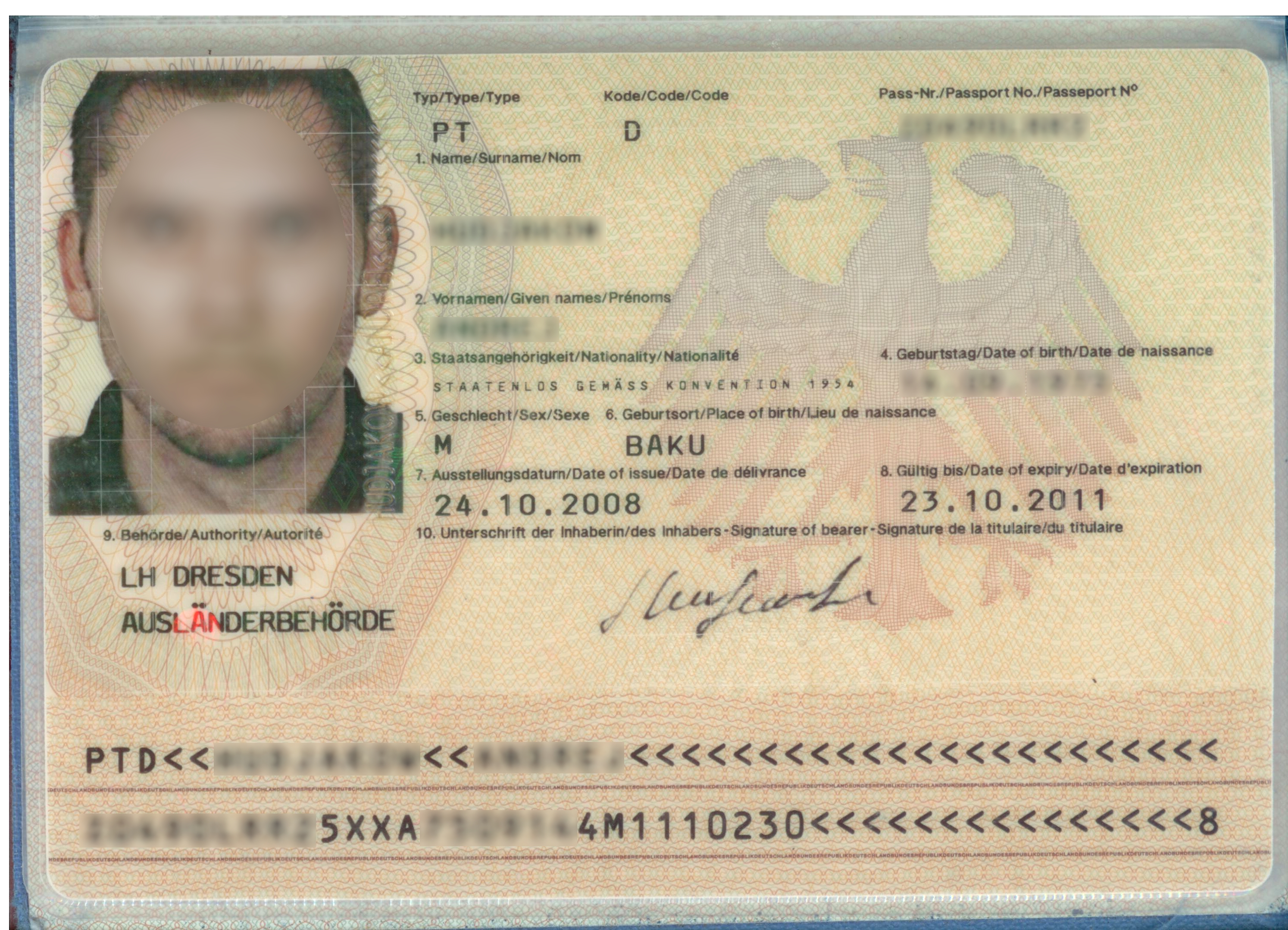 1954 Convention Travel Document, issuing authority: Germany 2008, inside